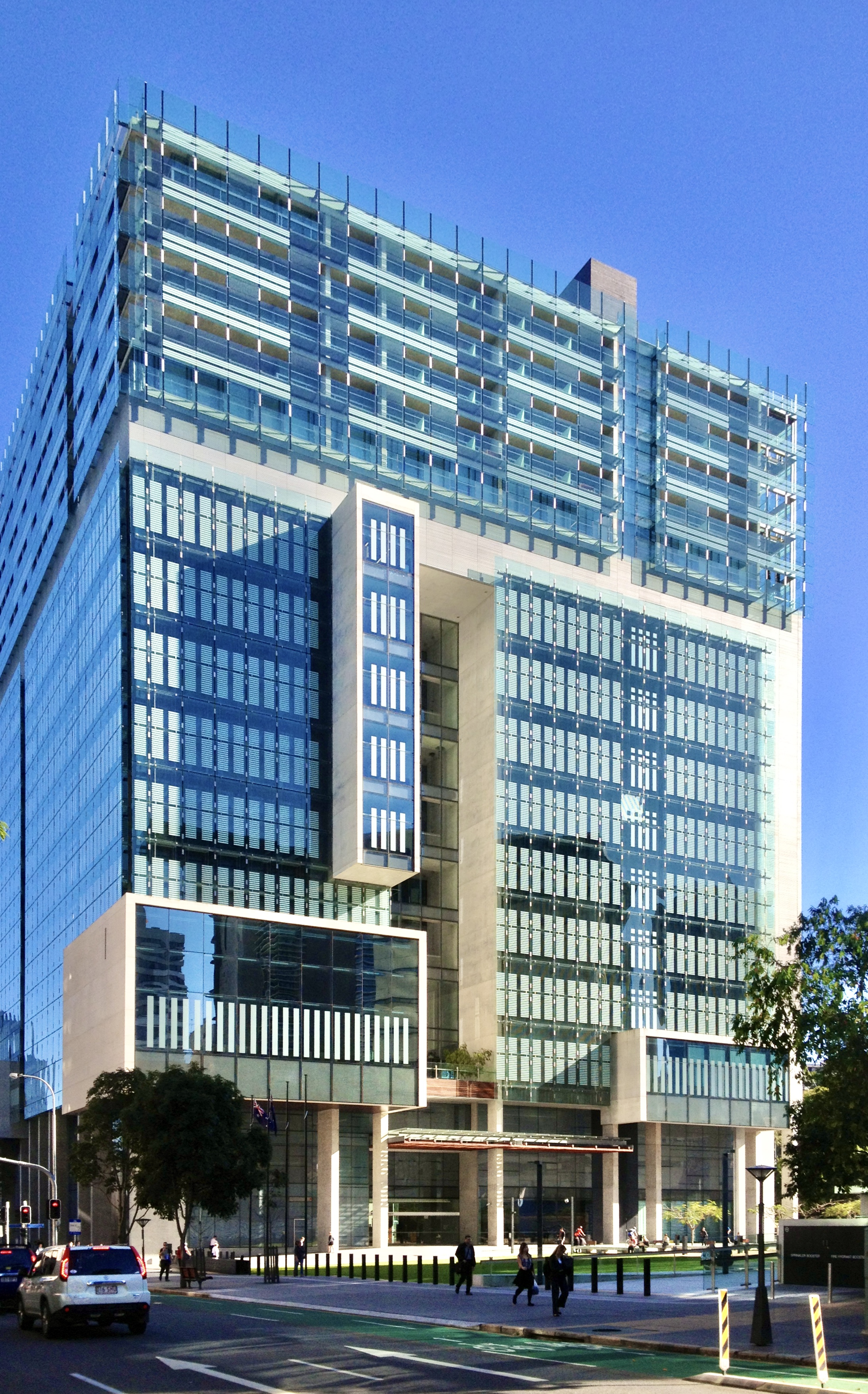 Queen Elizabeth II Courts of Law, Brisbane